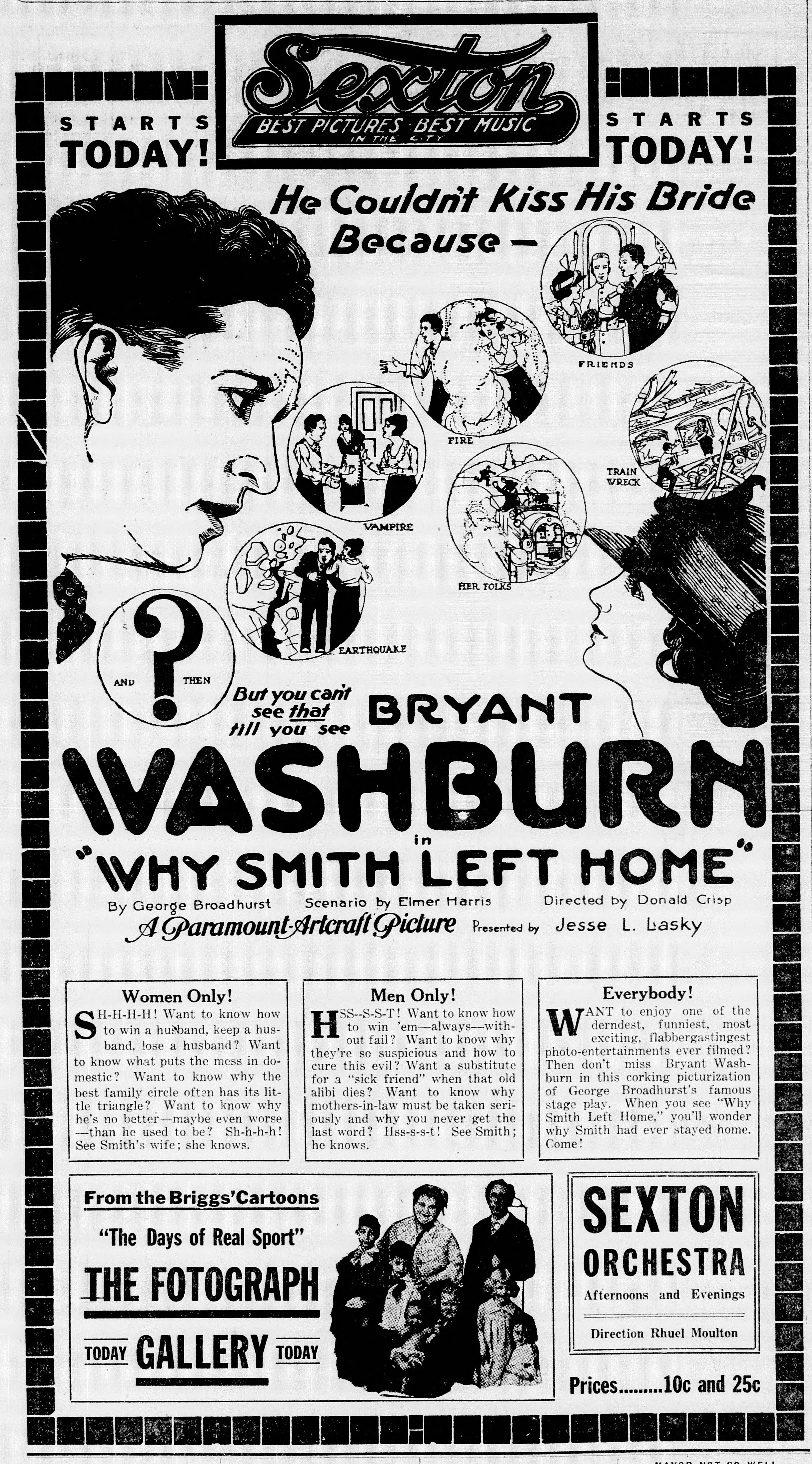 Newspaper advertisement for the American comedy film Why Smith Left Home (1919).